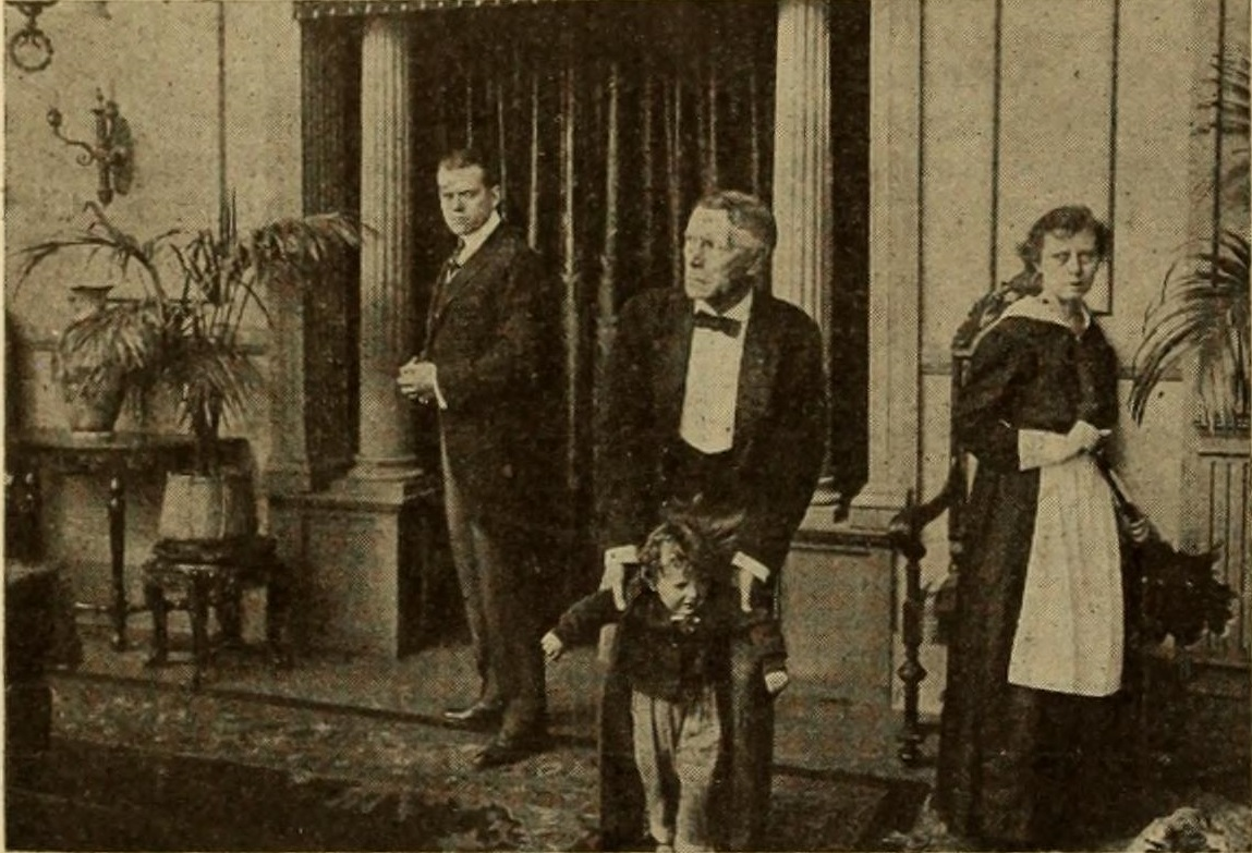 A surviving film still showing a scene from The Heart of Ezra Greer.